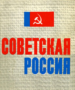 Cover of the catalog of Exhibition of works of 1967